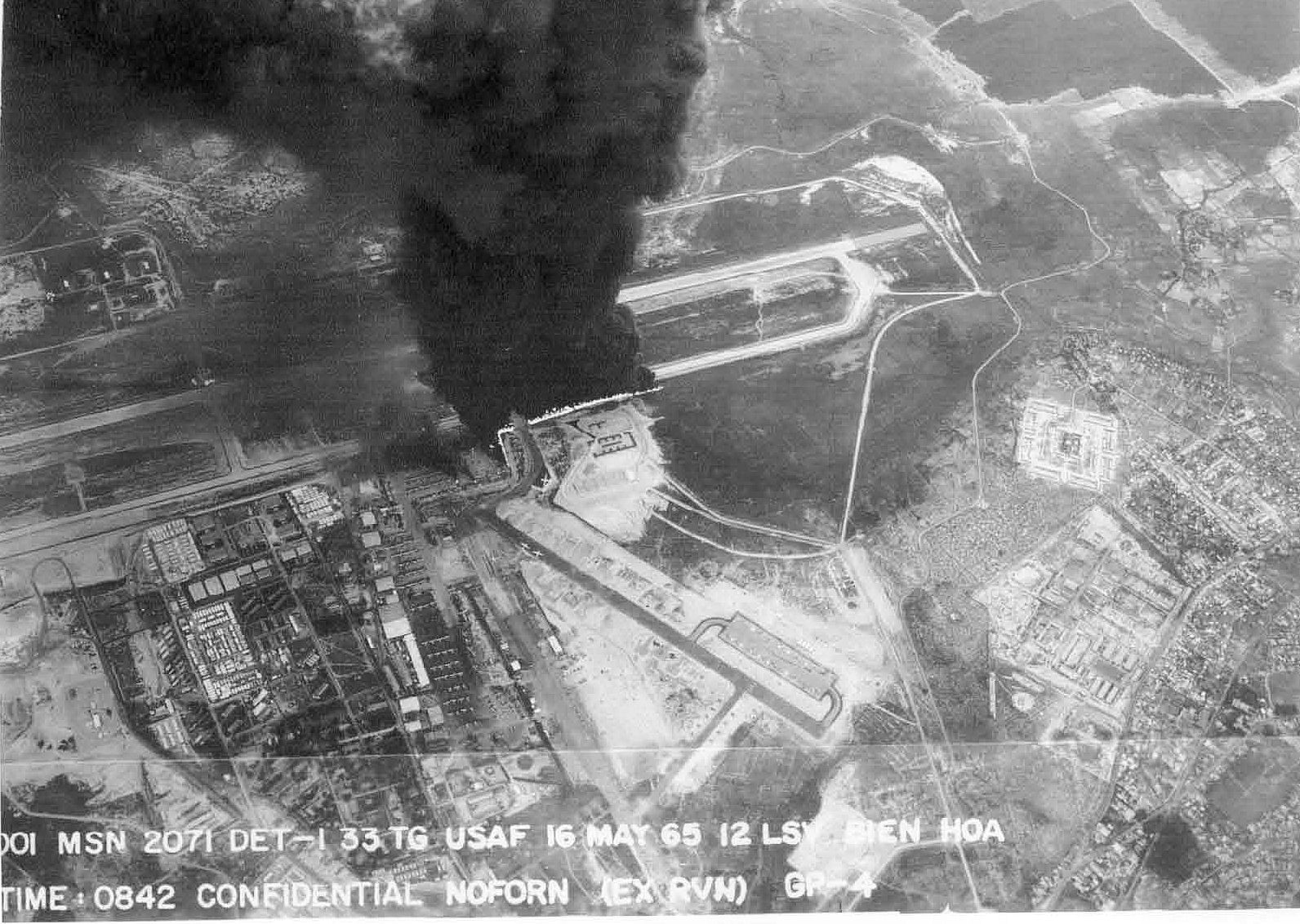 Burning aircraft on ramp at Bien Hoa AB - aireal view